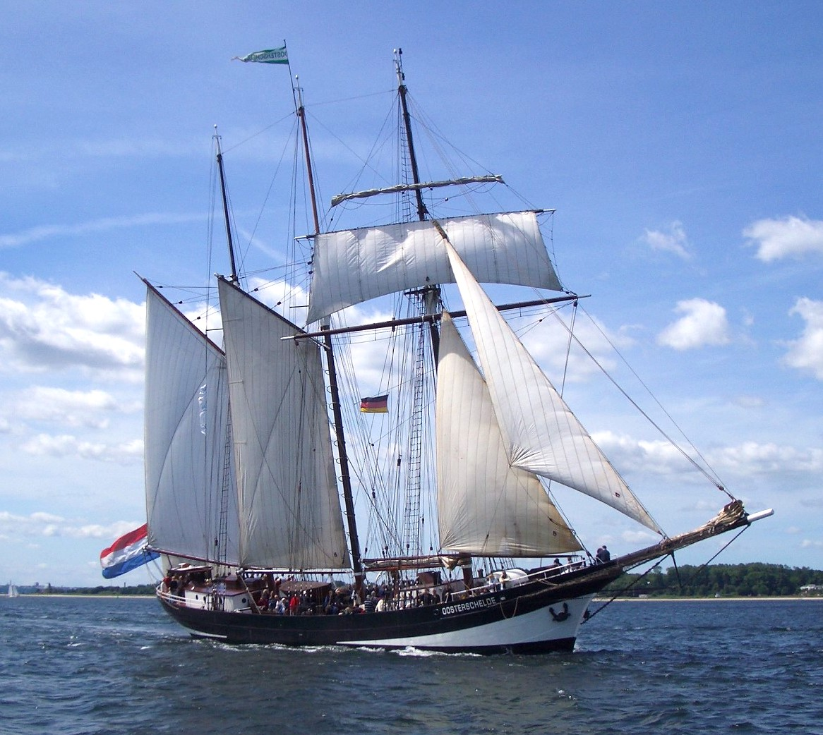 A Dutch topsail schooner